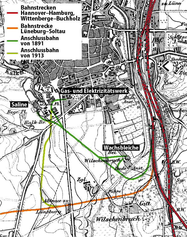 Map of feeder lines in Lüneburg, Lower Saxony, Germany